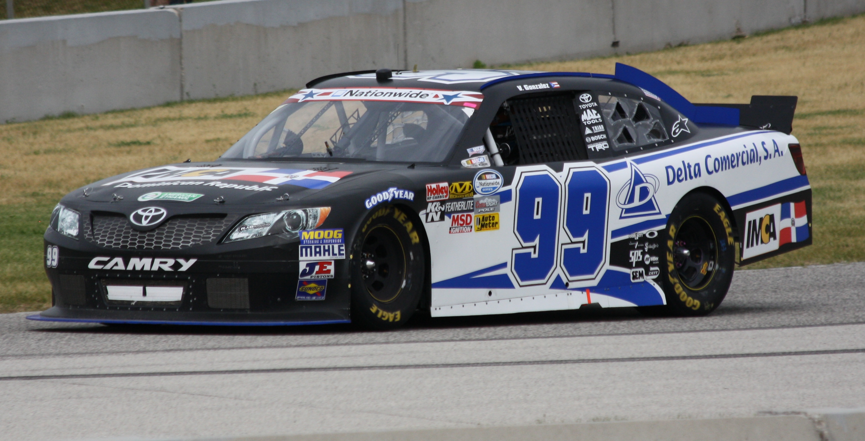 Victor Gonzalez, Jr. NASCAR Nationwide Series car at Road America at the 2012 Sargento 200.